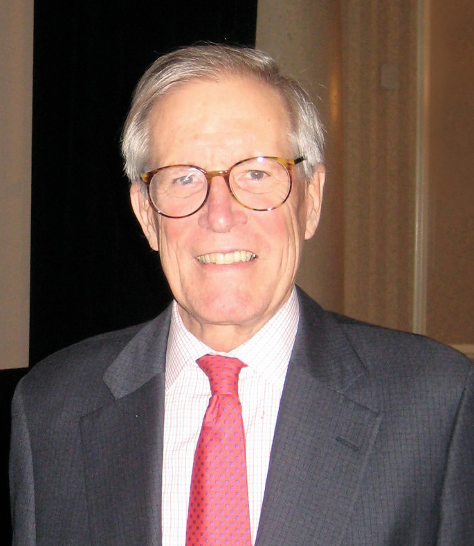 Governor Pete Du Pont and author Brendan Mackie are photographed in June 2011 while attending the Delaware History Makers Award Dinner on the Riverfront in Wilmington, Delaware.